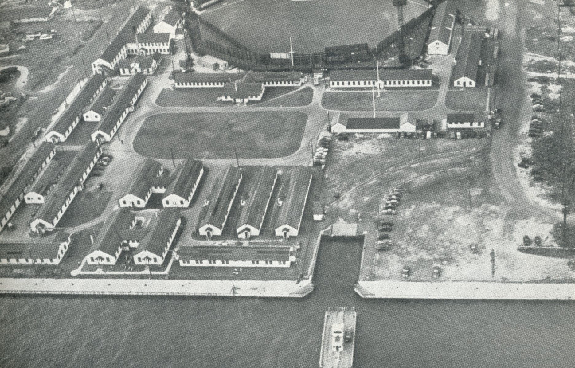 Camp Little Norway, Toronto. Next door to the old Maple Leaf Stadium, it housed the training centre of the Norwegian Air Forces from 1940. Later, in 1943, the training was moved to Muskoka, and the camp sold to the Royal Canadian Air Force.